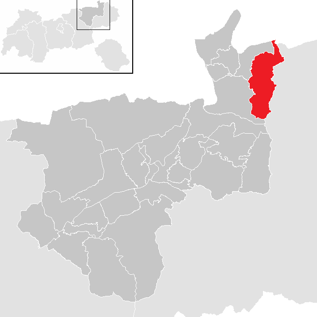 District Kufstein